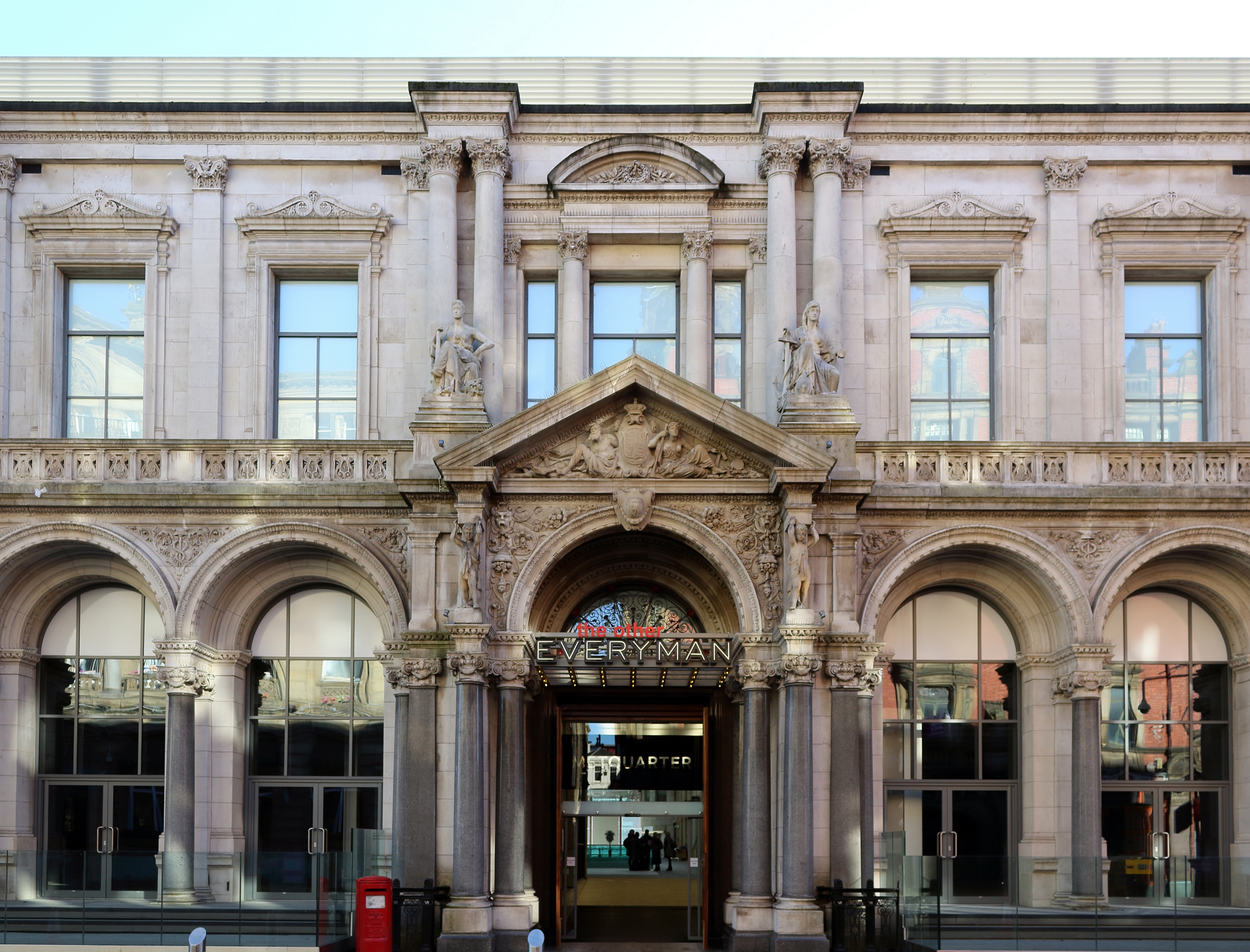 The former main door of the Victoria Street post office, now the north entrance to Metquarter.